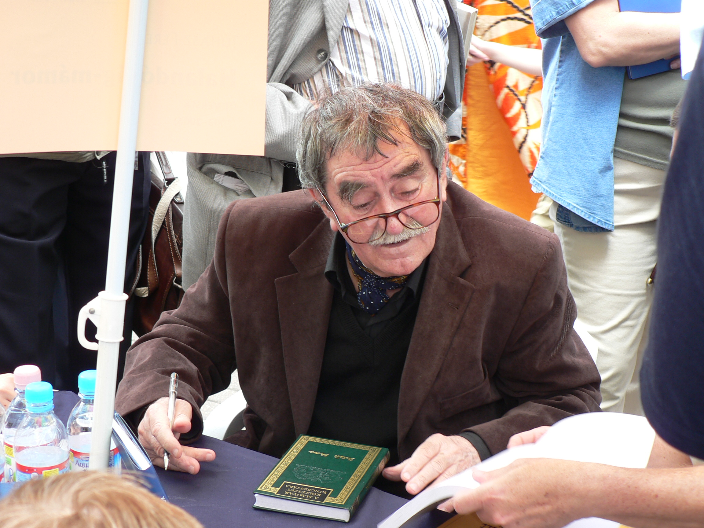 Ferenc Juhász (poet)